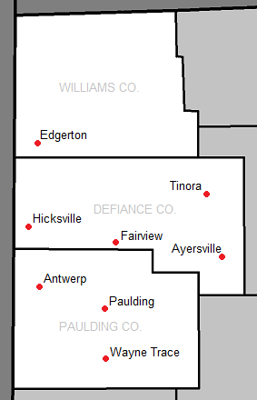 County outlines made by the US Census. I modified it to show school locations and to label counties.